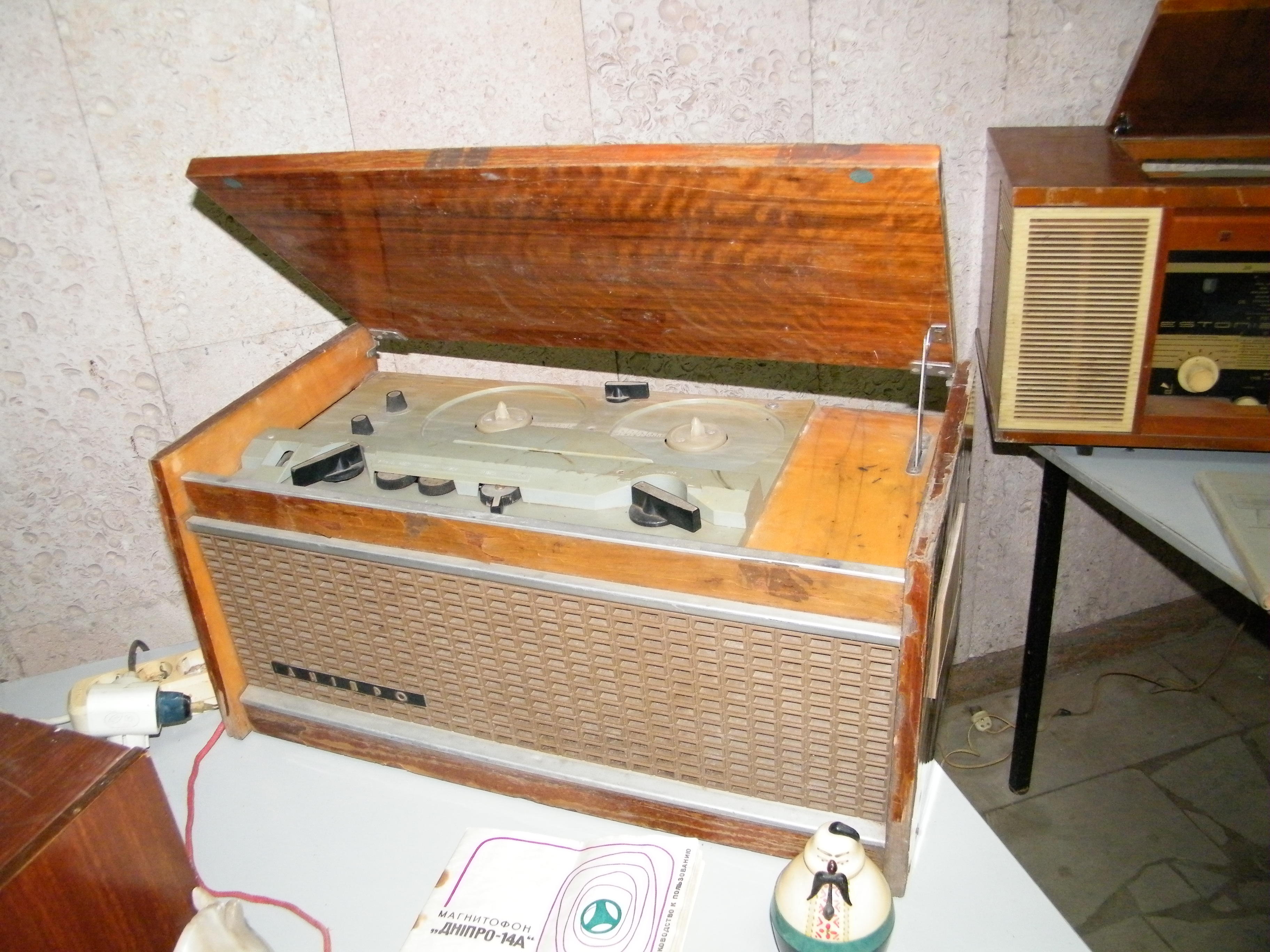 Dnepr-14A tape recorder. USSR, 1967